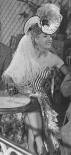 Margot Abad-actriz